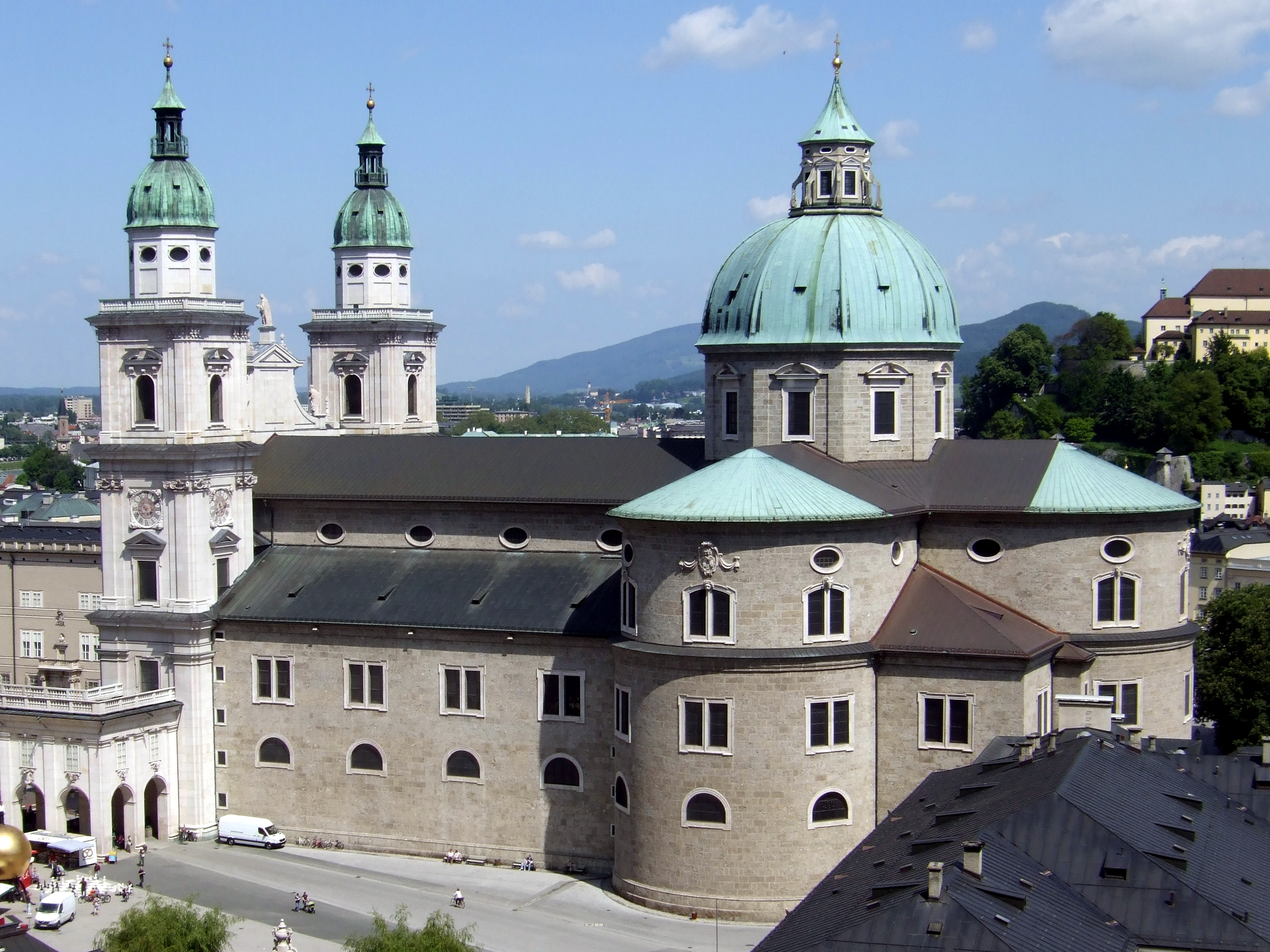 Salzburg Cathedral as seen from Festungsgasse